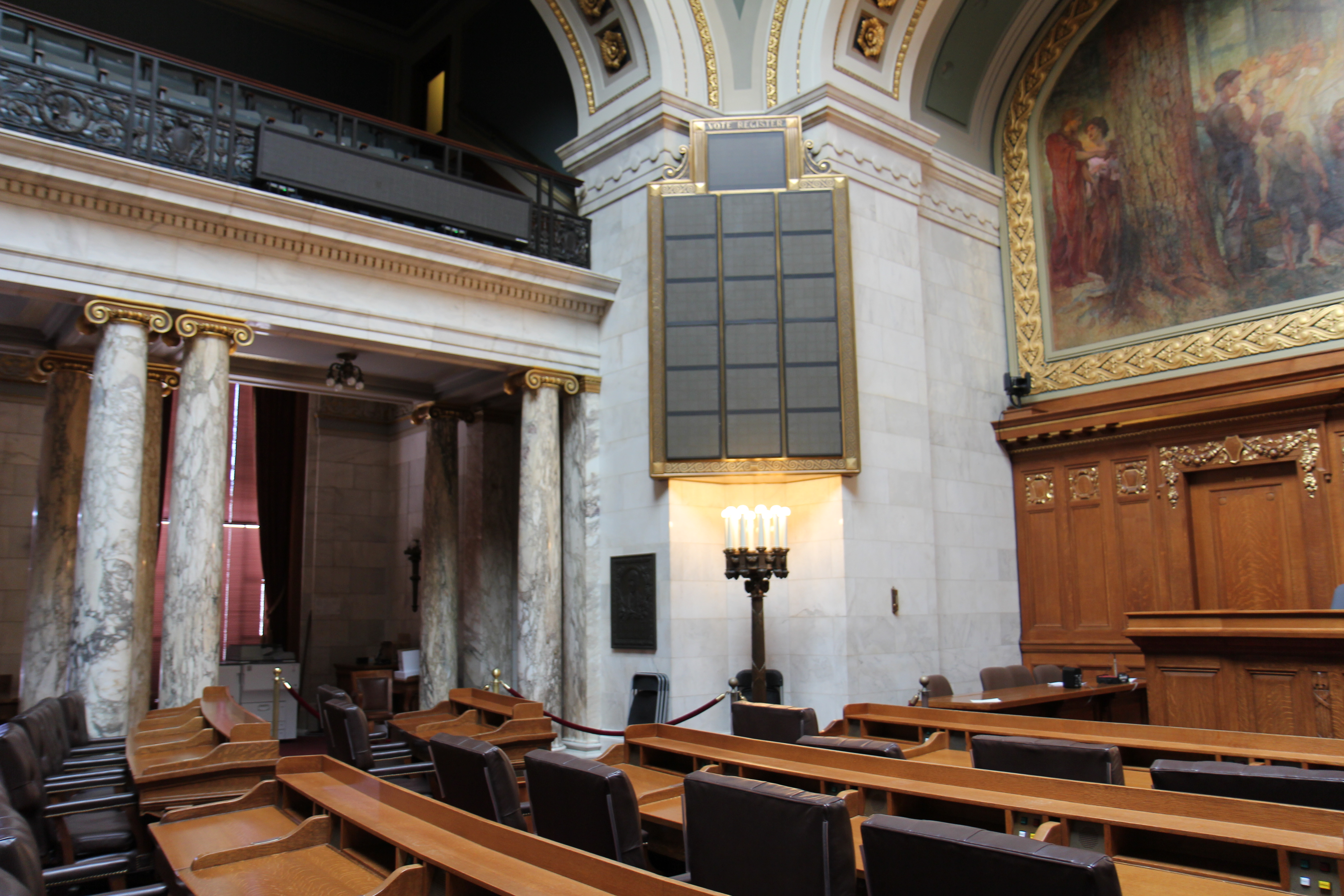 Looking at the front chairs in the Wisconsin State Assembly room. The electronic voting board was the world's first electronic voting board (at this high of a level) to be installed (from the 1910s). The painting was done prior the building's completion in 1917.